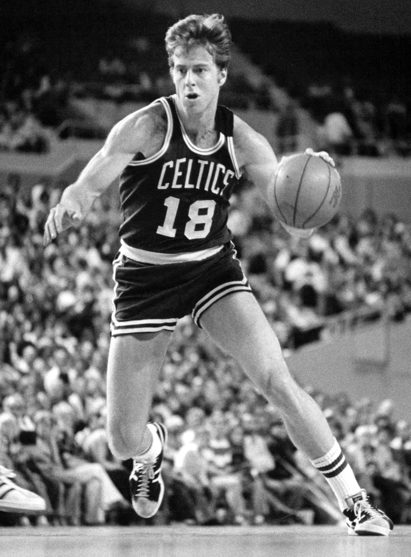 Professional basketball player Dave Cowens